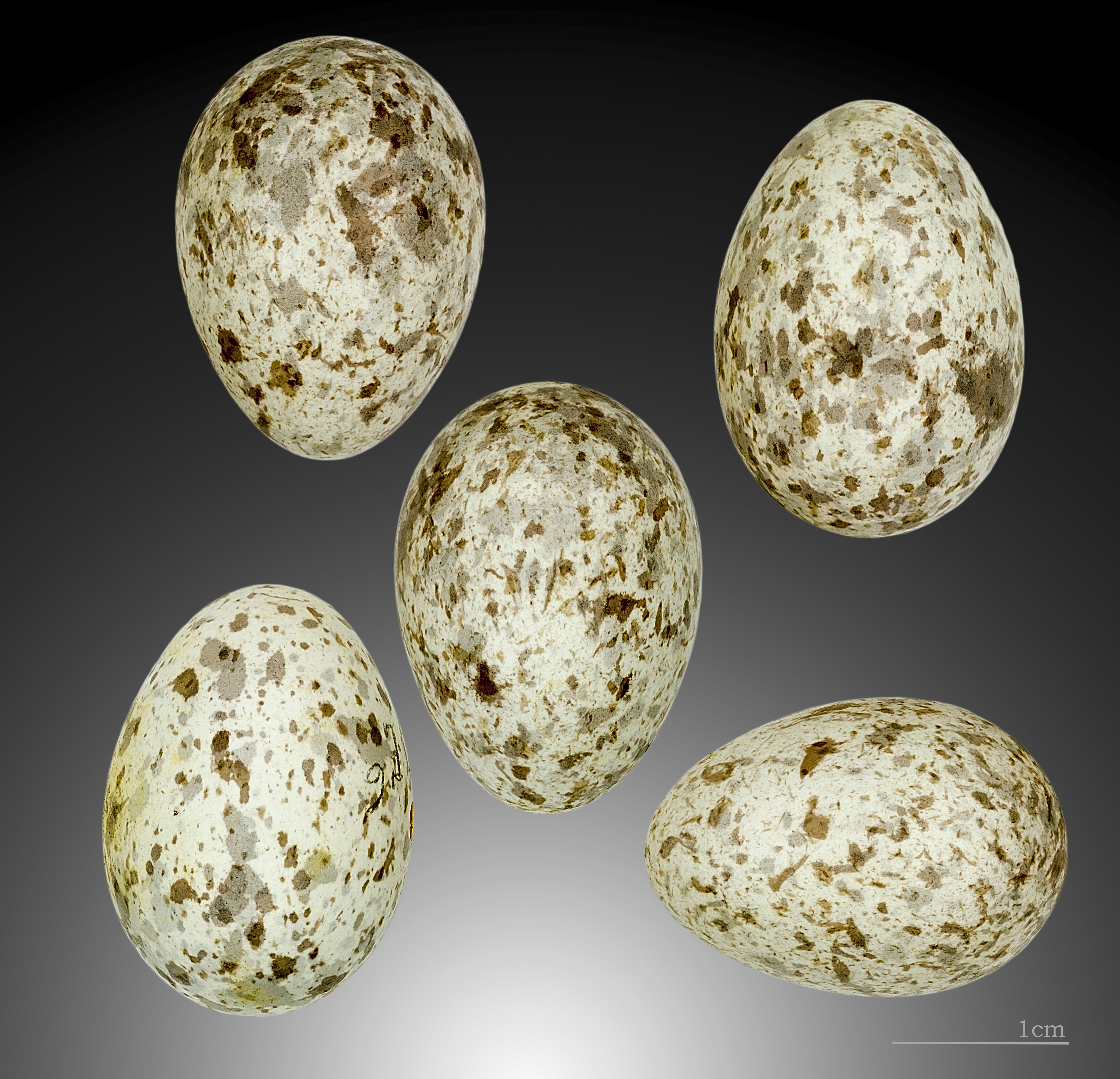 Egg of Rock sparrow. Collection of Jacques Perrin de Brichambaut.